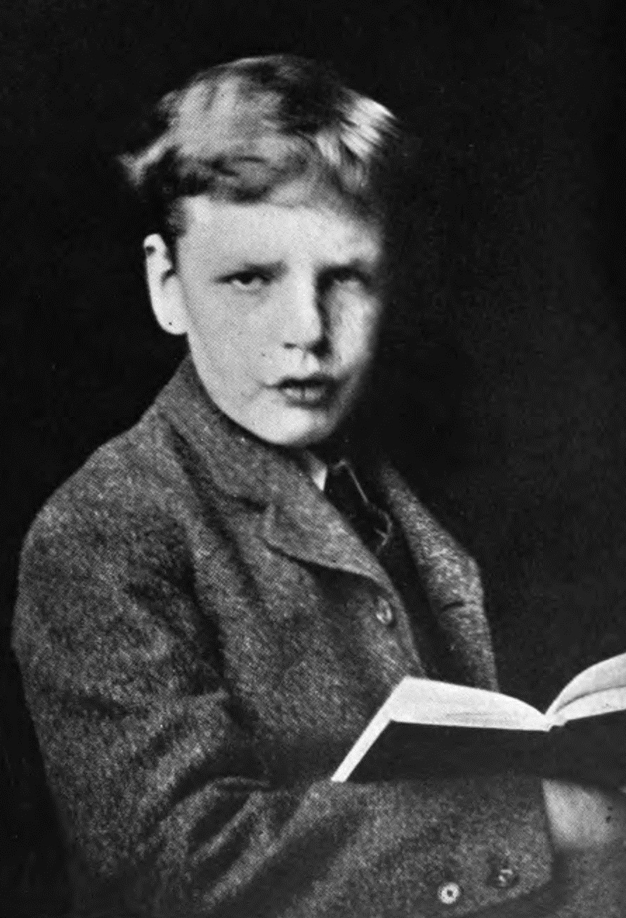 G. K. Chesterton at the age of 13